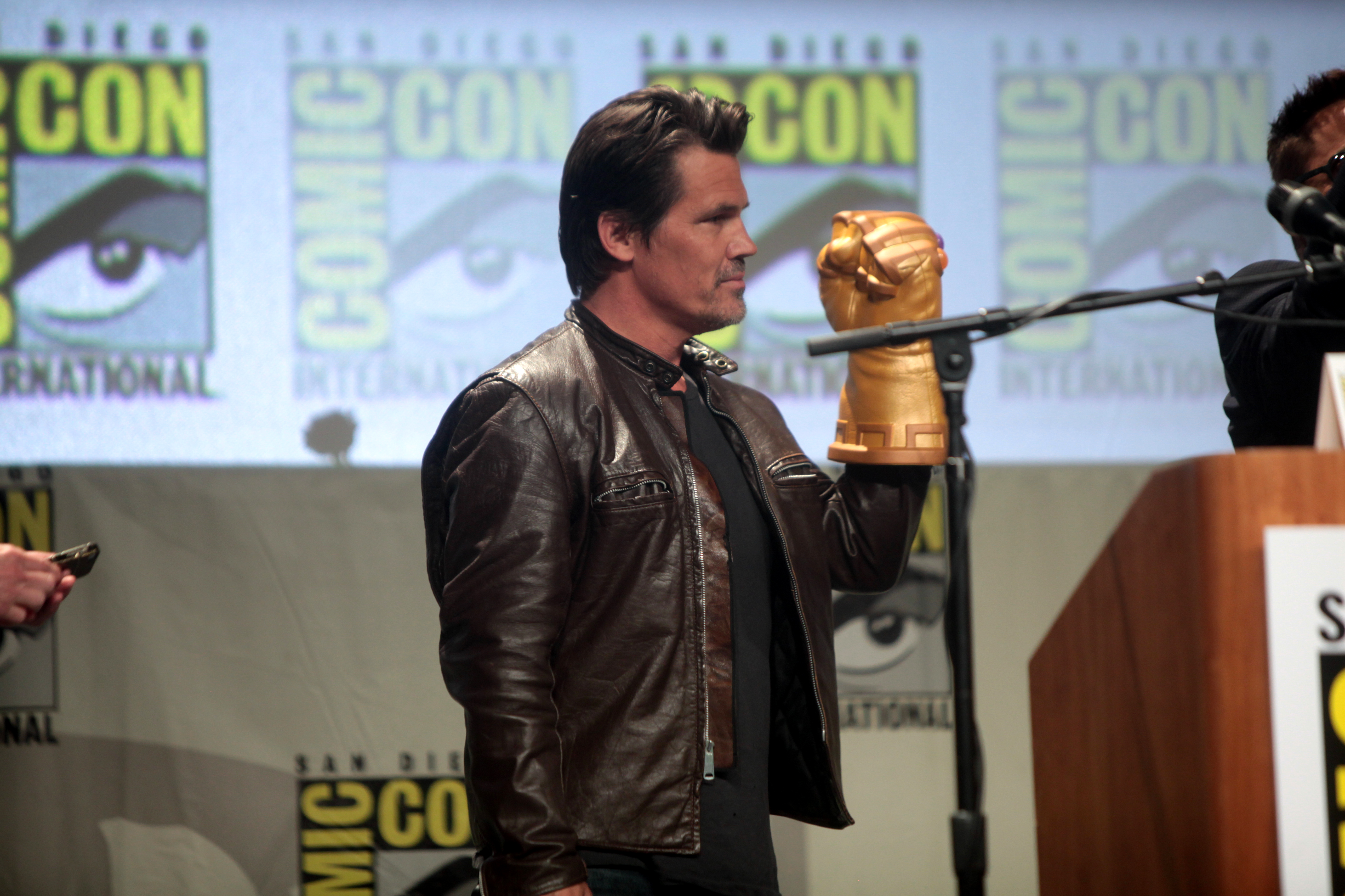 Josh Brolin promoting the film Avengers Age of Ultron at the 2014 San Diego Comic Con International.